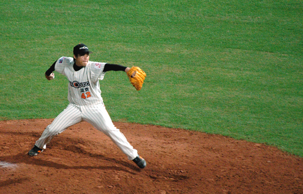 CHENG_JIA-HON